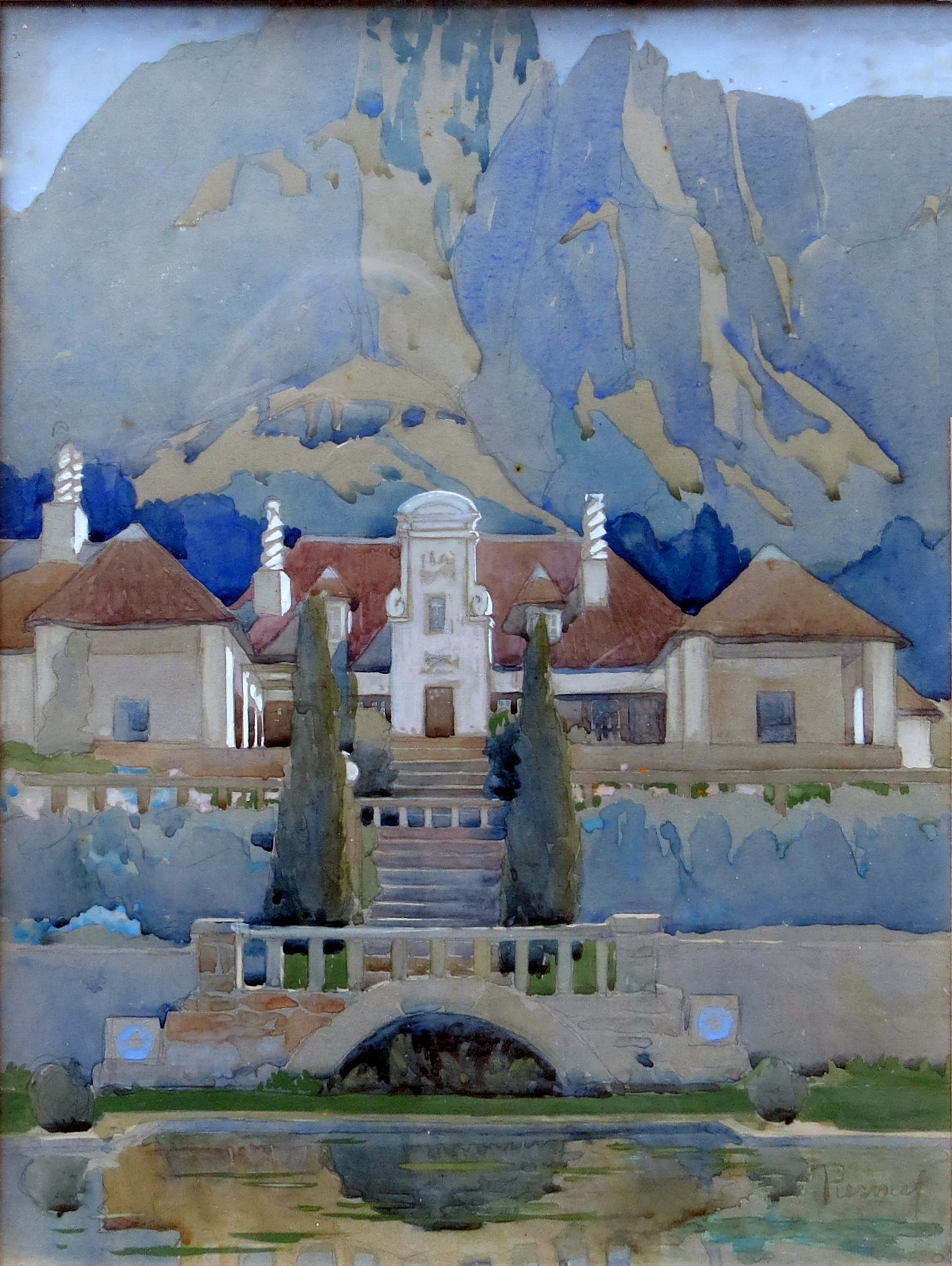 Pierneef painting of Luncarty House, a Herbert Baker structure, in Newlands, Cape Town